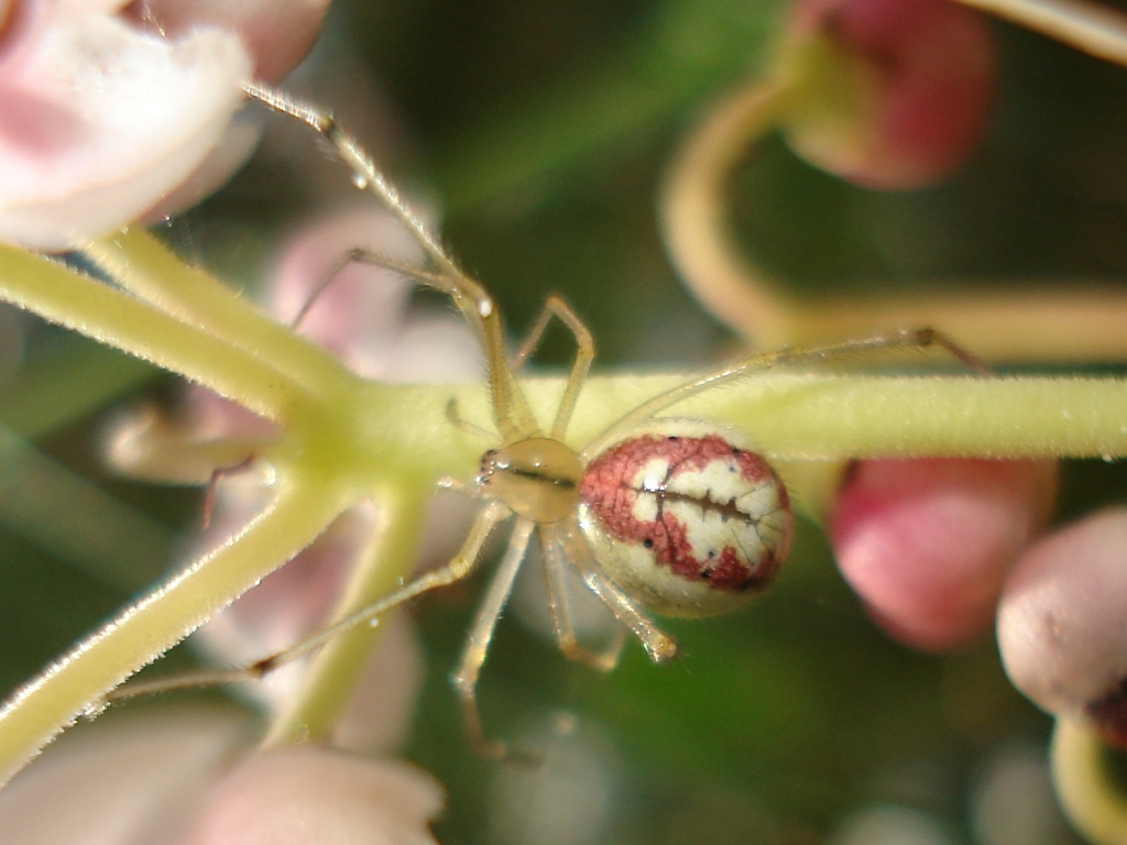 Enoplognatha ovata